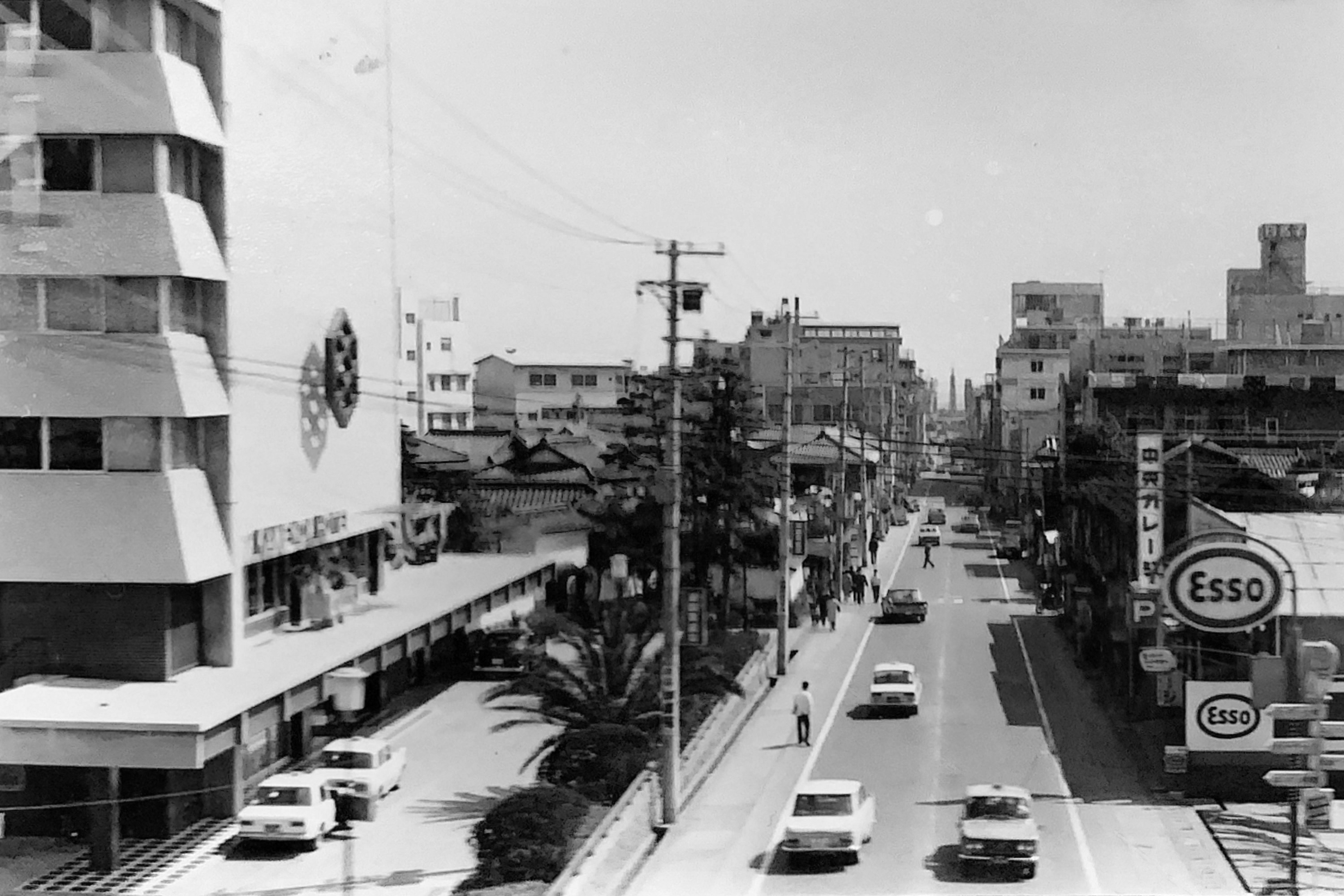 Beppu City Nagarekawa Street 1960s